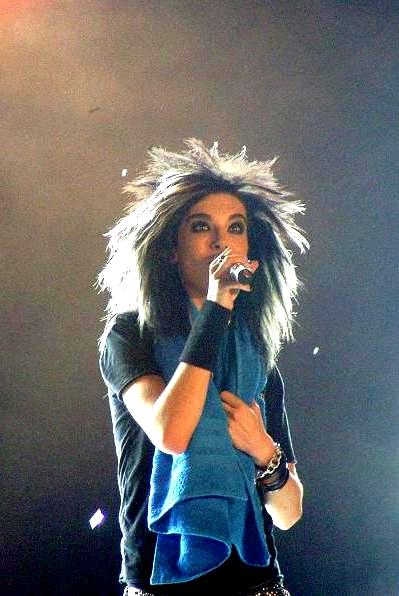 Bill Kaulitz at 'Olympic' sport center, 27.9.2007, Moscow, Russia (2007)